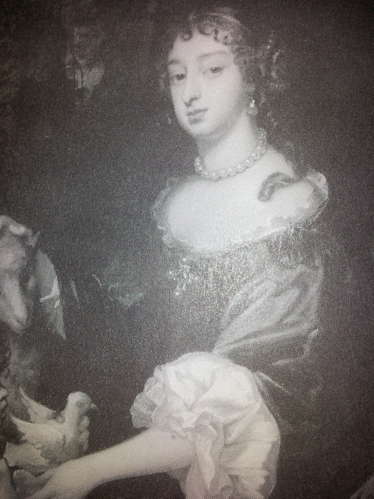 Elizabeth Villiers, later Elizabeth Hamilton, Countess of Orkney (c. 1657 – April 19, 1733), mistress of William III, King of England from 1680 until 1695.